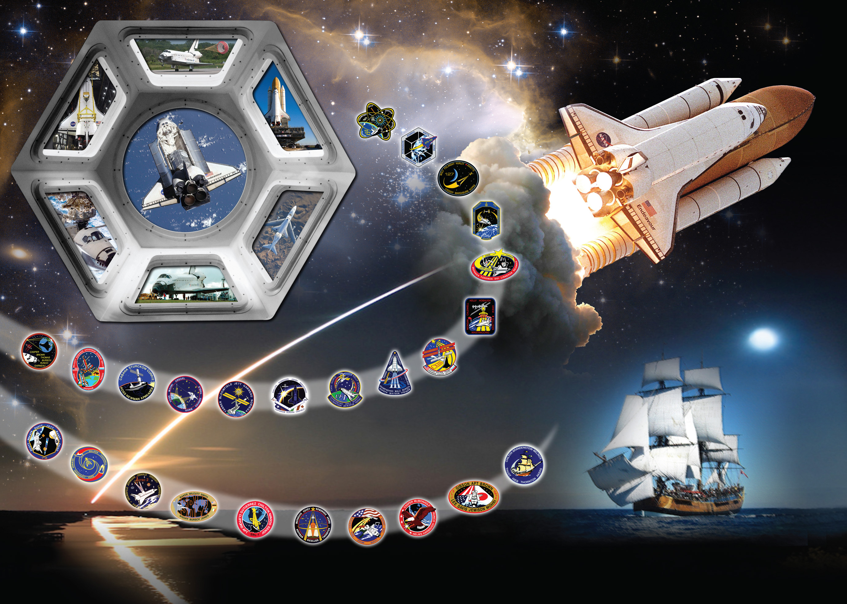 This is a printable version of space shuttle Endeavour's orbiter tribute, or OV-105, which hangs in Firing Room 4 of the Launch Control Center at NASA's Kennedy Space Center in Florida. It features Endeavour soaring into orbit above the sailing vessel HMS Endeavour for which it was named. The Cupola, delivered to the International Space Station by Endeavour on STS-130, frames various images that represent the processing and execution of the Space Shuttle Program. Clockwise from top, are the first-ever use of a drag chute during the STS-49 landing, rollout to a launch pad, a ferry flight return to Kennedy, rolling into an orbiter processing facility, docking to the International Space Station, and lifting operations before being mated to an external fuel tank and solid rocket boosters in the Vehicle Assembly Building. The background image was captured by the Hubble Space Telescope and signifies the first shuttle servicing mission, which was performed by Endeavour's STS-61 crew. Another element of the background is a photograph of the STS-130 launch taken by James Vernacotola entitled "Waterway to Orbit", which won honorable mention in a 2011 National Geographic photography contest. Crew-designed patches from Endeavour's maiden voyage through its final mission are shown ascending toward the stars. Five orbiter tributes are on display in the firing room, representing Atlantis, Challenger, Columbia, Endeavour and Discovery.